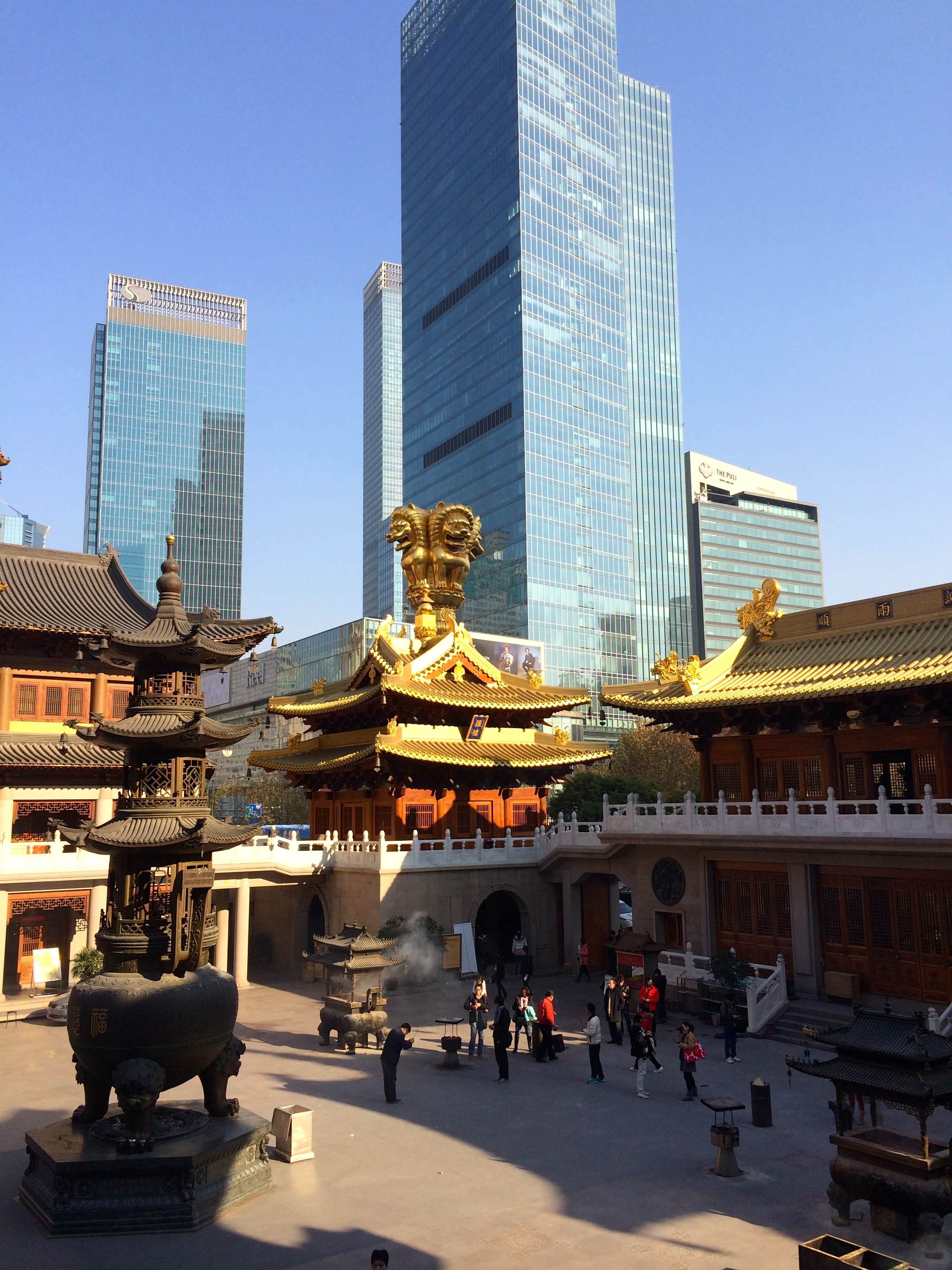 Jing'an Temple on the West Nanjing Road